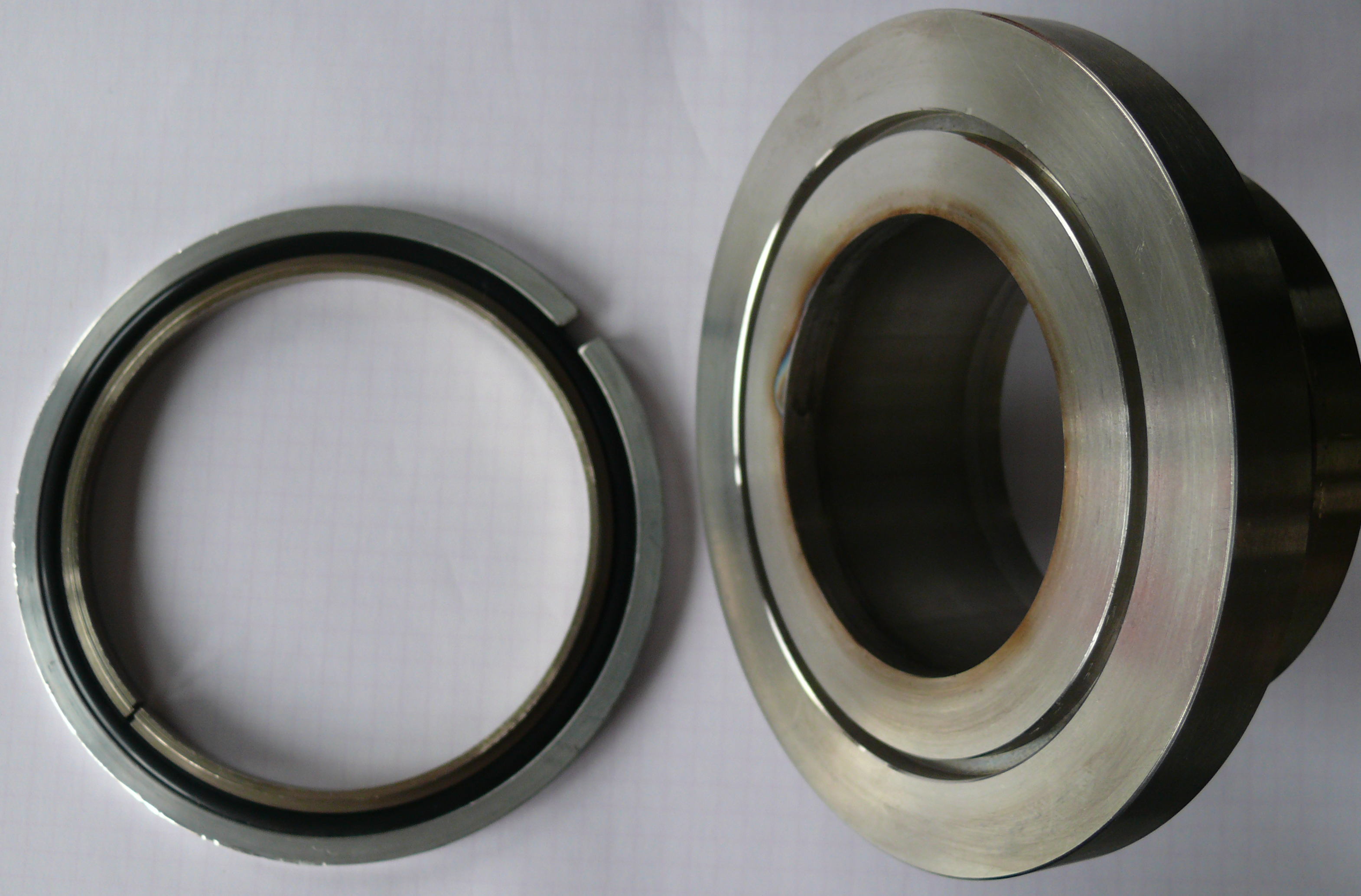 ISO-LF-Flange with Gasket